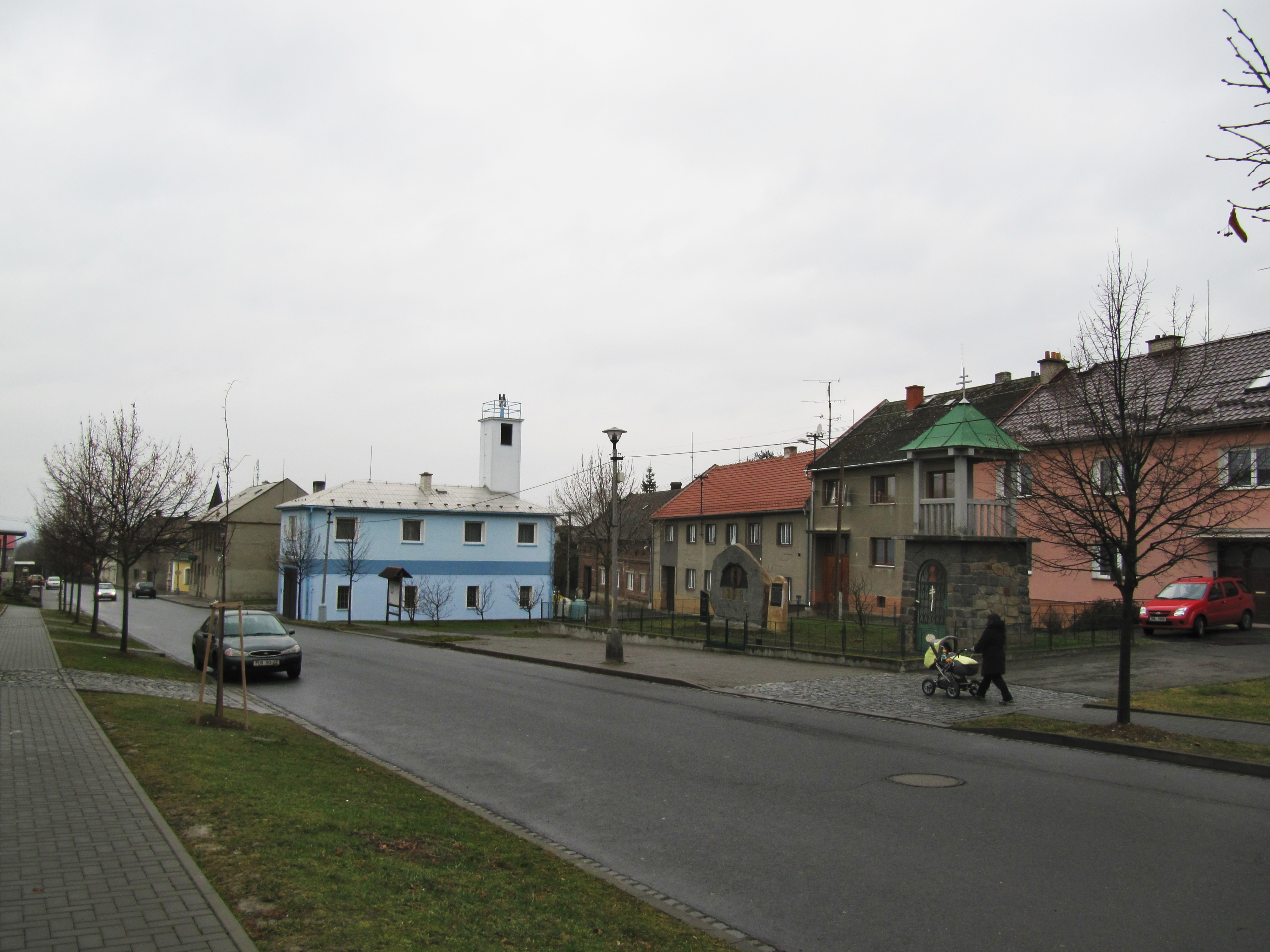 Přáslavice, Olomouc District, Czech Republic.